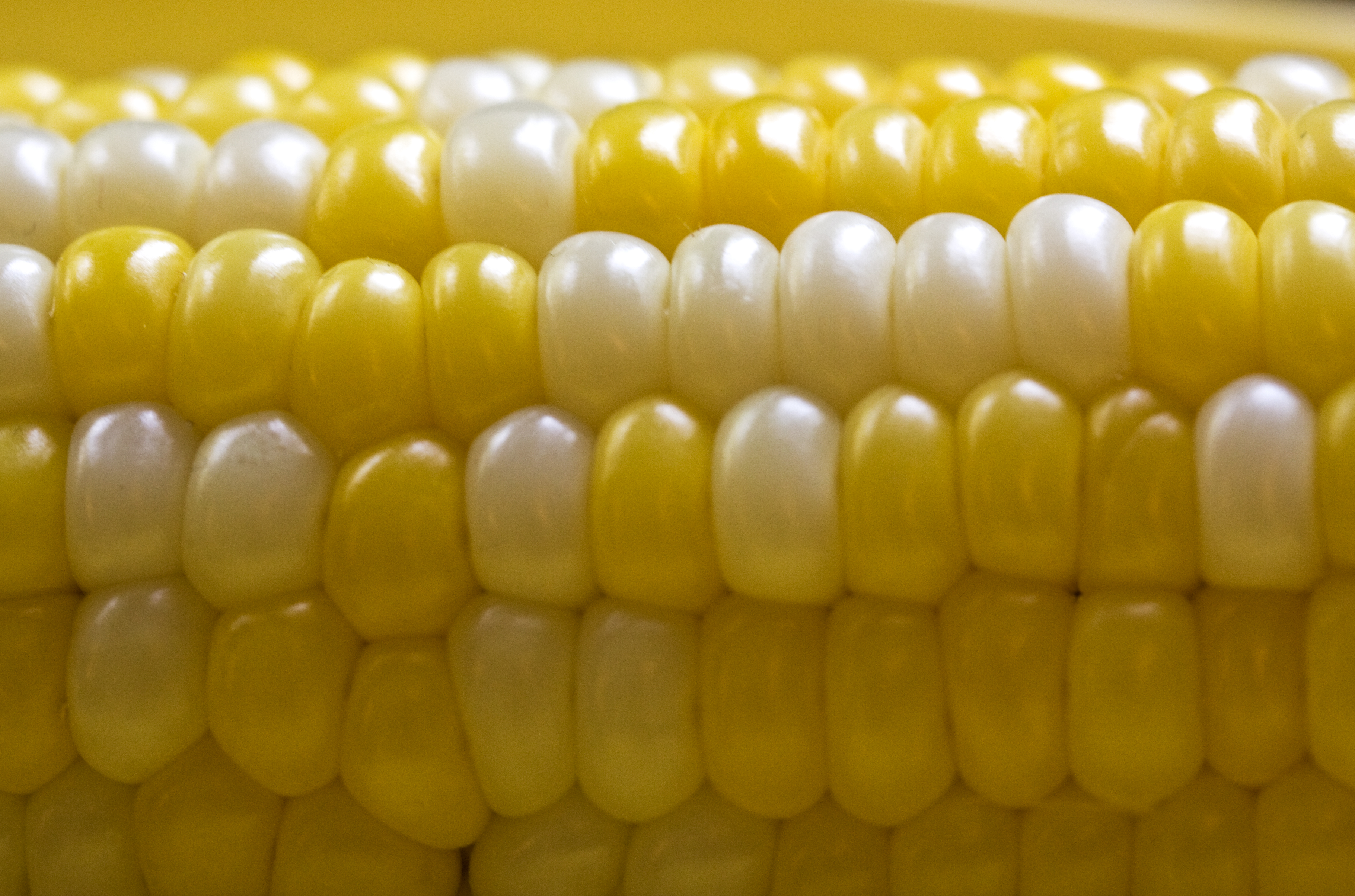 kernels